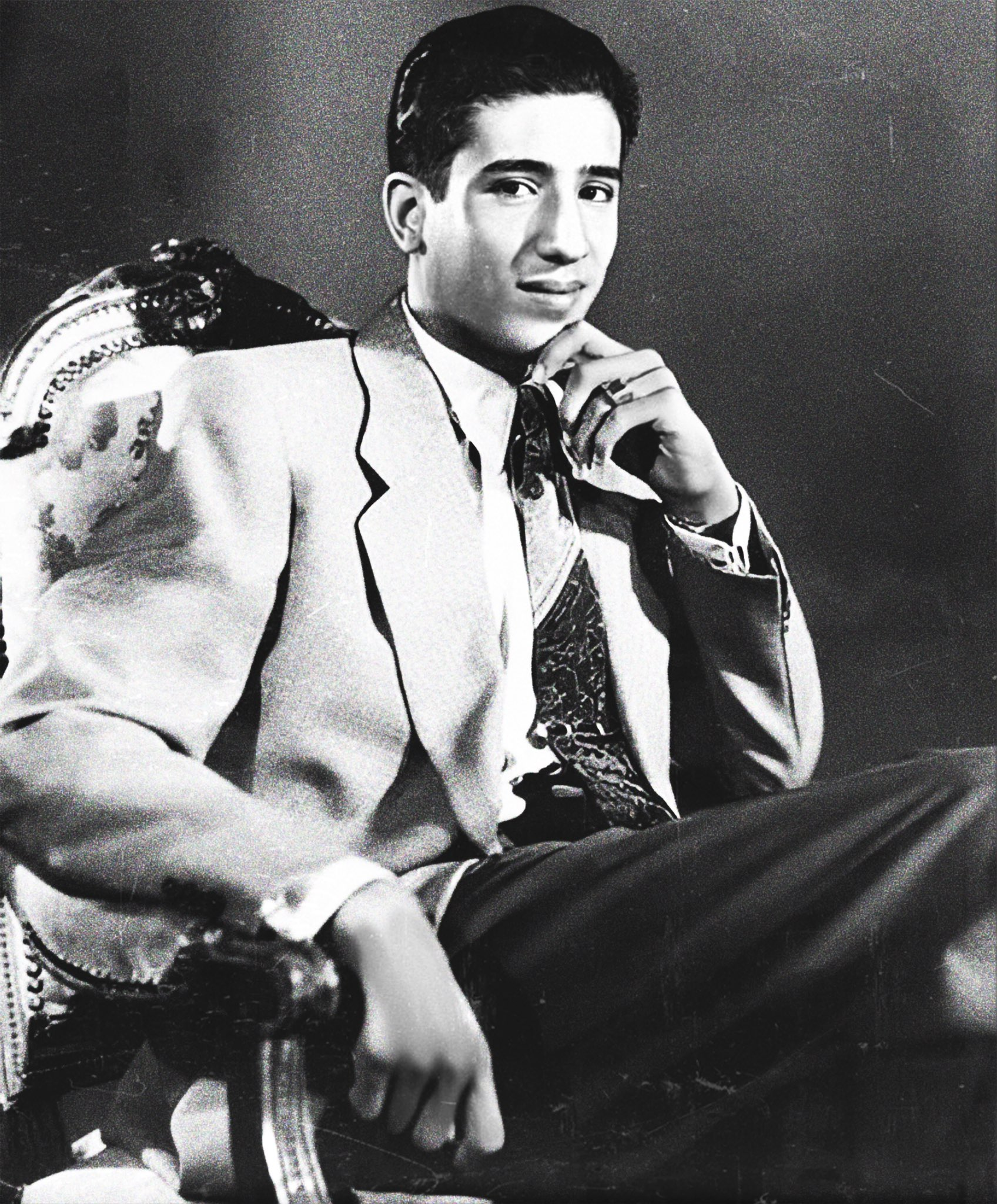 Salman bin Abdullaziz Al Saud in his Youth